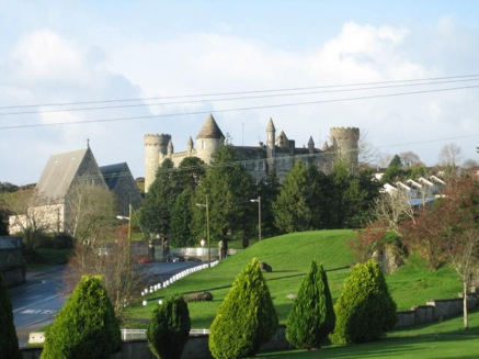 College Toer And Turret